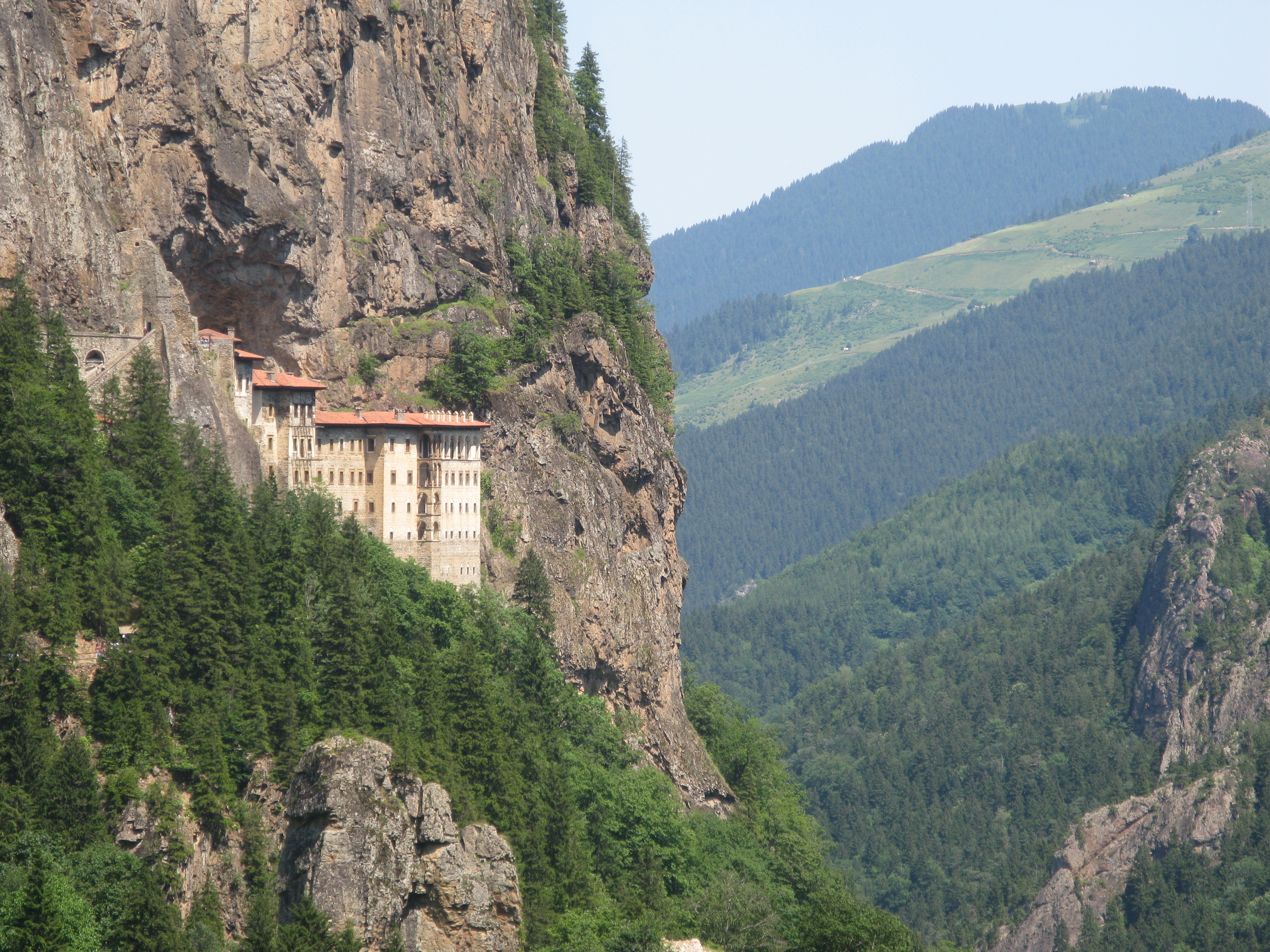 View on the Sumela Monastery in the province of Trabzon in Turkey from the road to the monastery.